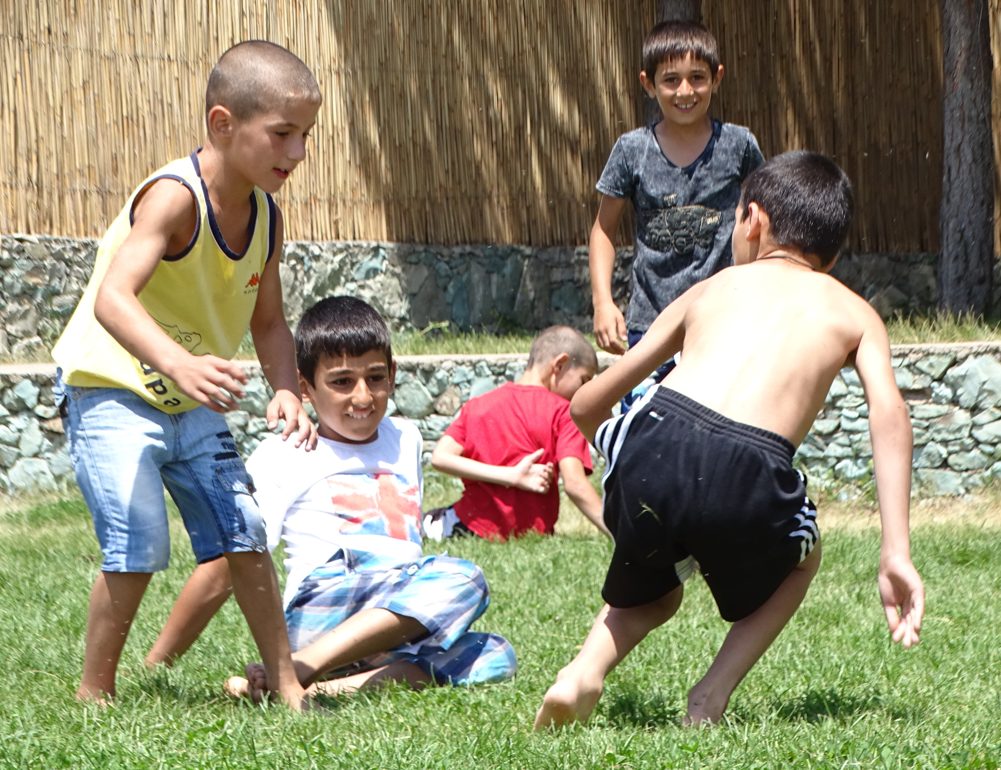 Kids at Play - Lake Sevan - Armenia